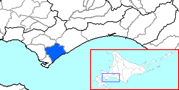 The location of Noboribetsu in Iburi Subprefecture, Hokkaido Prefecture, Japan.